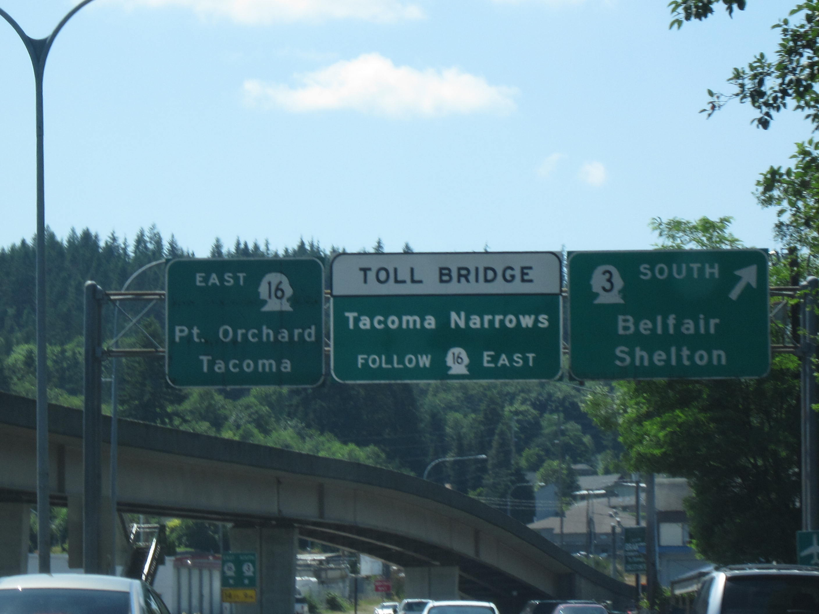 Washington State Route 3 southbound at its intersection with Washington State Route 16 in Gorst.